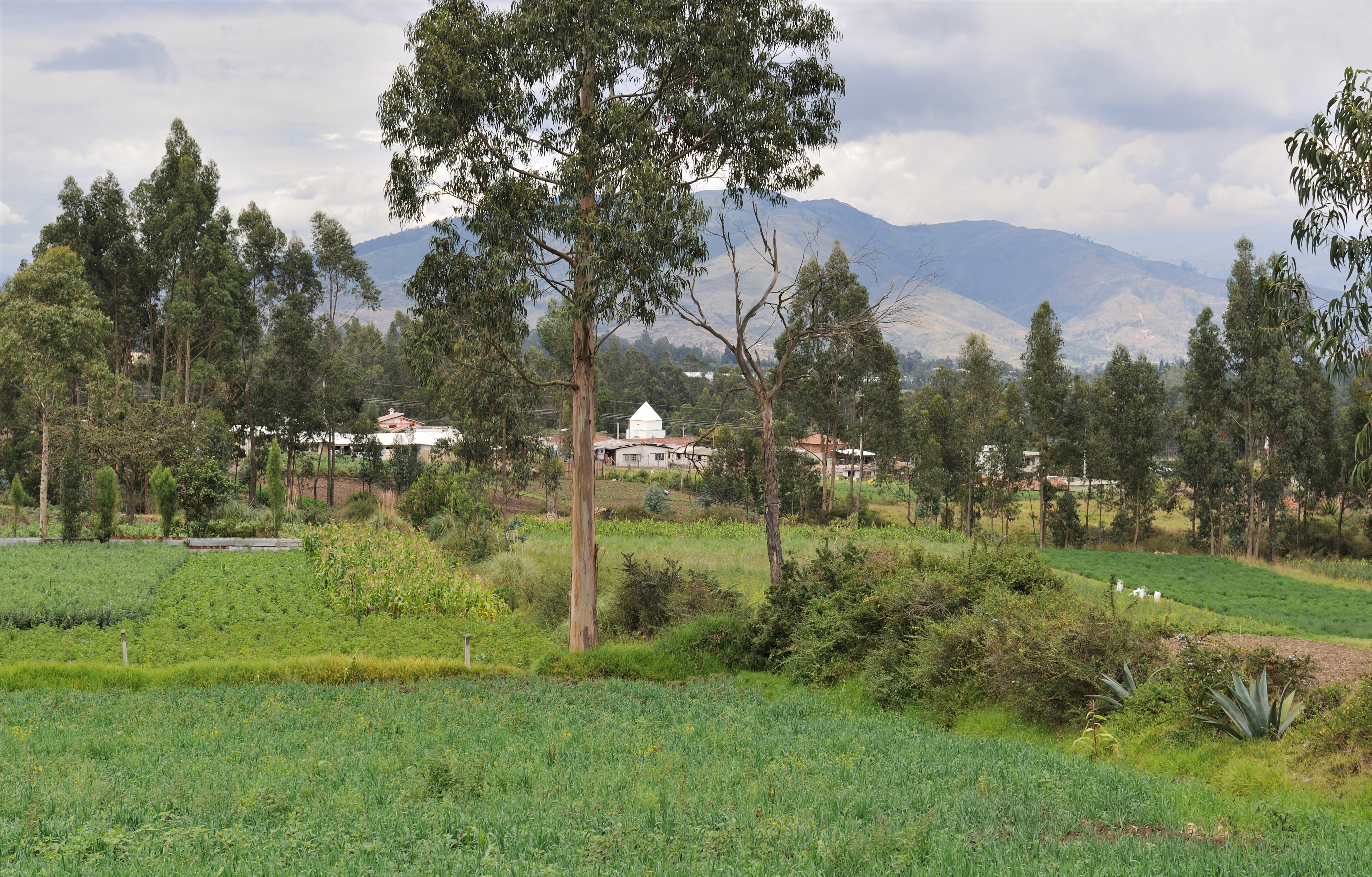 Ecuador, Oyambaro, east of Quito, province of Pichincha: agricultural landscape. In the distance: the pyramid erected by the French geodesic expedition in 1736.